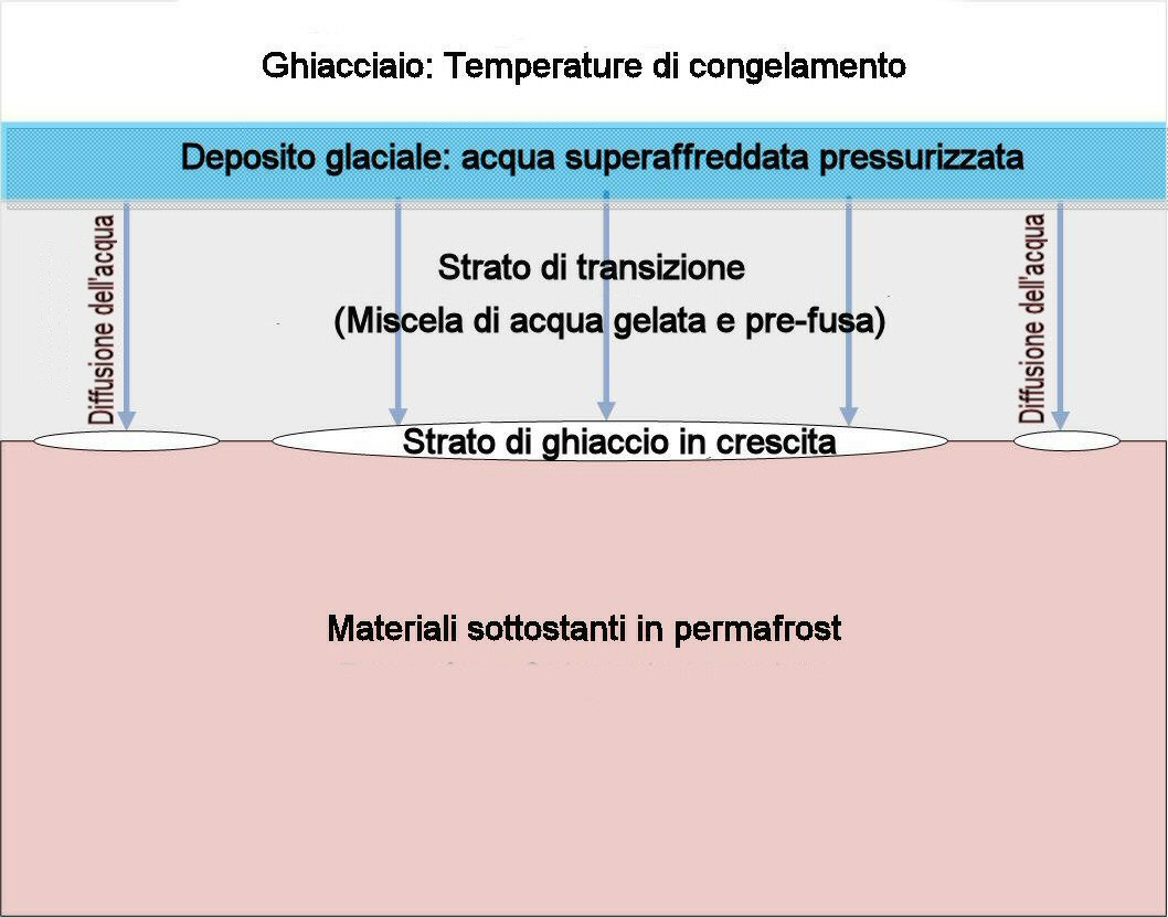 For use with article being written on ice lenses. Derived from information in: ::*Dash2006 - Dash, G.,; A. W. Rempel, J. S. Wettlaufer (2006). "The physics of premelted ice and its geophysical consequences". Rev. Mod. Phys. 78 (695). American Physical Society. Retrieved on 30 November 2009. ::*Murton2006 - Murton, Julian B.; Peterson, Rorik & Ozouf, Jean-Claude (17 November 2006). "Bedrock Fracture by Ice Segregation in Cold Regions". Science 314 (5802): 1127 - 1129. Retrieved on 30 November 2009. ::*Rempel2007 - Rempel, A.W. (2007). "Formation of ice lenses and frost heave". Journal of Geophysical Research 112 (F02S21). American Geophysical Union. Retrieved on 30 November 2009. ::*Rempel2008 – Rempel, A. W. (2008). "A theory for ice-till interactions and sediment entrainment beneath glaciers". Journal of Geophysical Research: F01013. American Geophysical Union.. Retrieved on 30 November 2009. ::*Peterson2008 - Peterson, R. A.,; Krantz , W. B. (2008). "Differential frost heave model for patterned ground formation: Corroboration with observations along a North American arctic transect". Journal of Geophysical Research 113: G03S04. American Geophysical Union.. Retrieved on 30 November 2009., ::*Walder1985 - Walder, Joseph; Hallet, Bernard (March 1985). "A theoretical model of the fracture of rock during freezing". Geological Society of America Bulletin 96 (3): 336-346. Geological Society of America.. 10.1130/0016-7606(1985)96 2.0.CO;2. Retrieved on 30 November 2009.